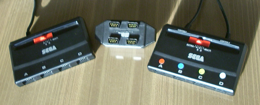 At the image there are the three different multitaps which were released for the Sega Mega Drive (Genesis in North America). From left to right: The first 4-Player Adaptor from Sega, the 4 way play from EA (both are incompatible to each other) and Sega's second 4-Player Adaptor which is compatible to both formats.